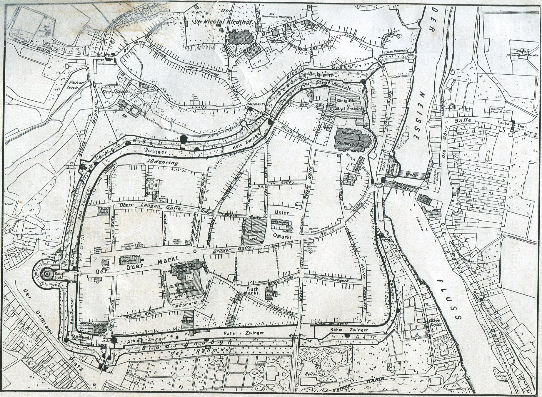 historical map of the city of Görlitz